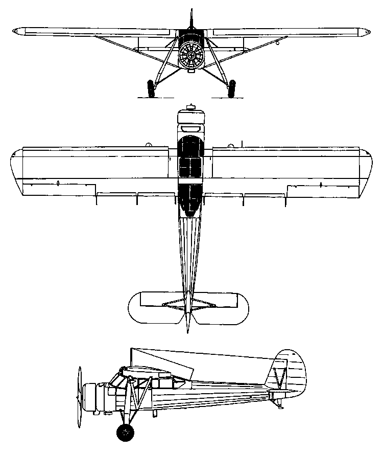 The Kokusai Ki-76 was a Japanese high-wing monoplane artillery spotter and liaison aircraft that served in World War II. The Allied reporting name was "Stella".